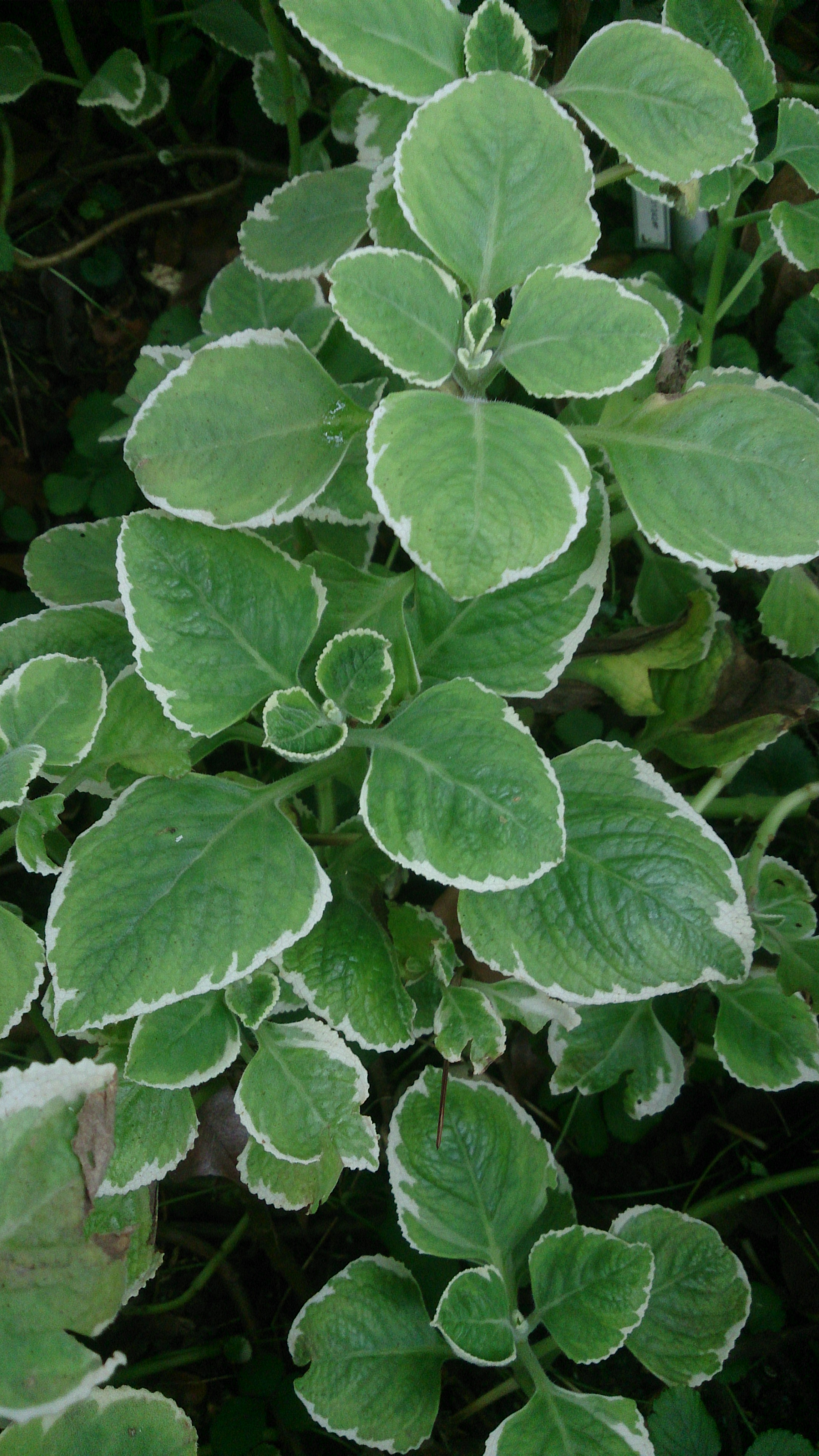 Plectranthus amboinicus 'Variegatus'. Common names: Variegated Cuban Oregano. Variegated Indian Borage.